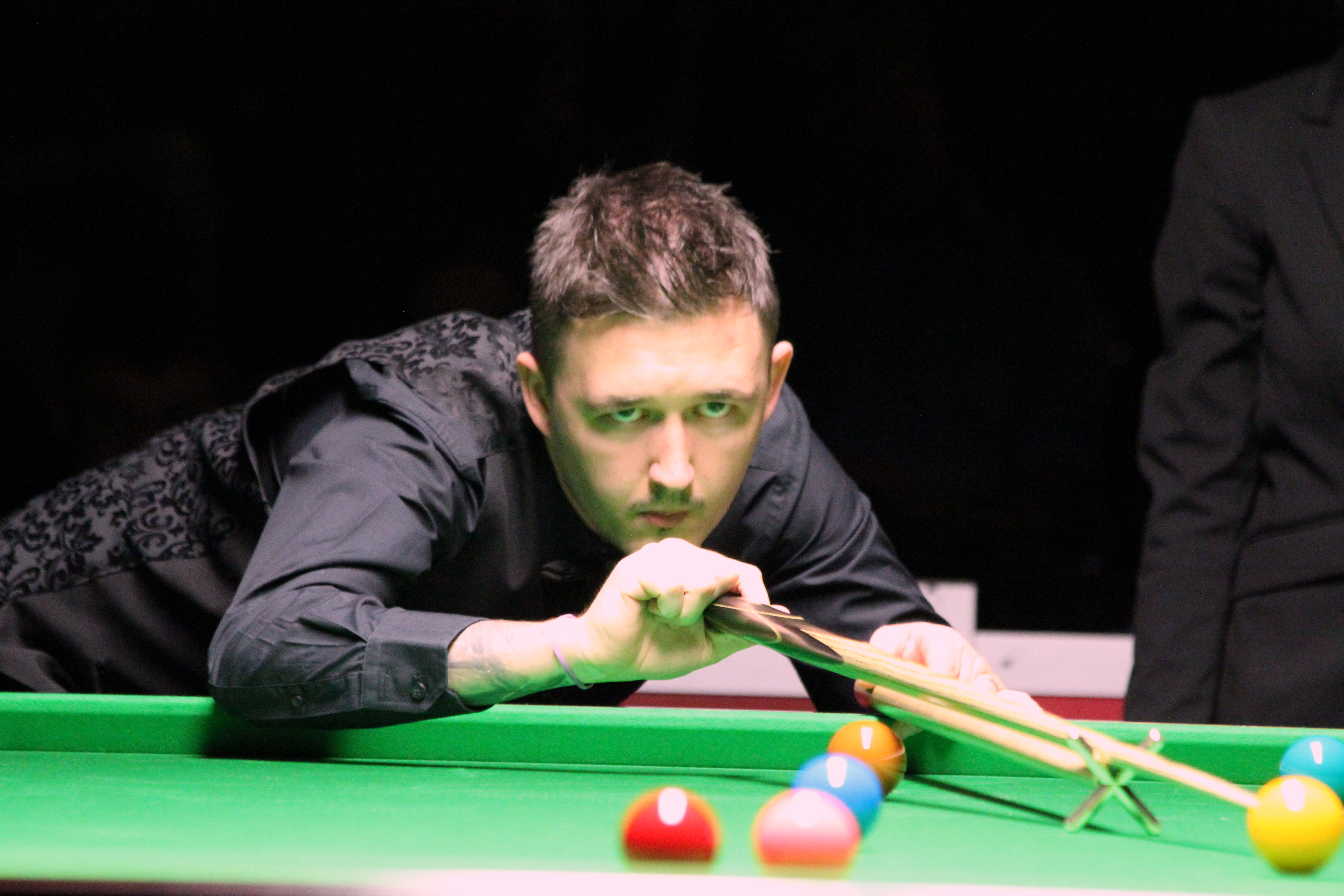 Kyren Wilson at the Paul Hunter Classic 2018